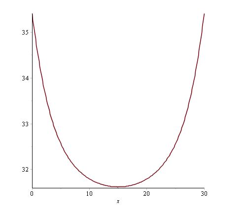 Reflection path length